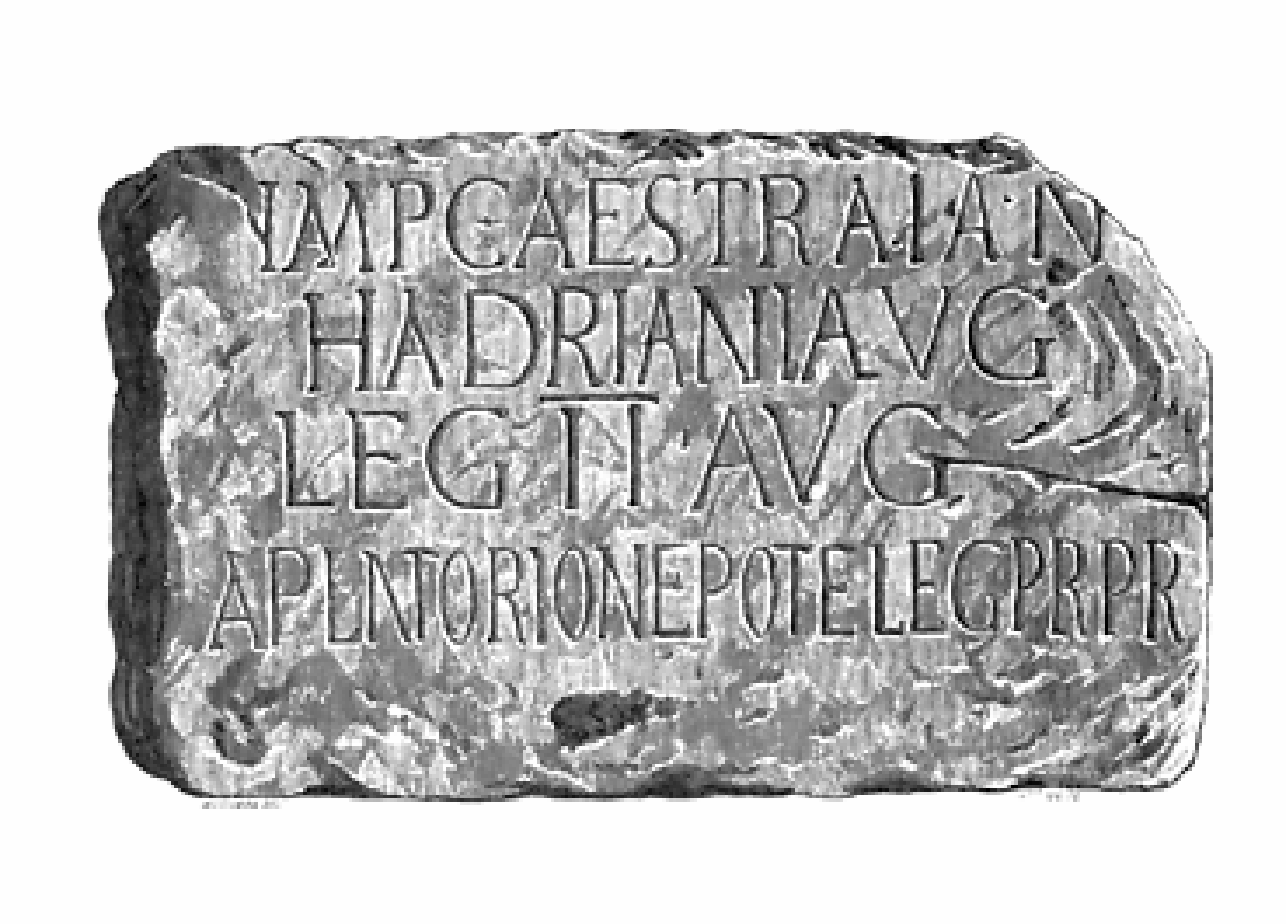 Dedication-slab Leg. II Augusta, 122-126AD, found 1751, presumably at Hotbank milecastle, No. 38, now in in the Great North Museum.